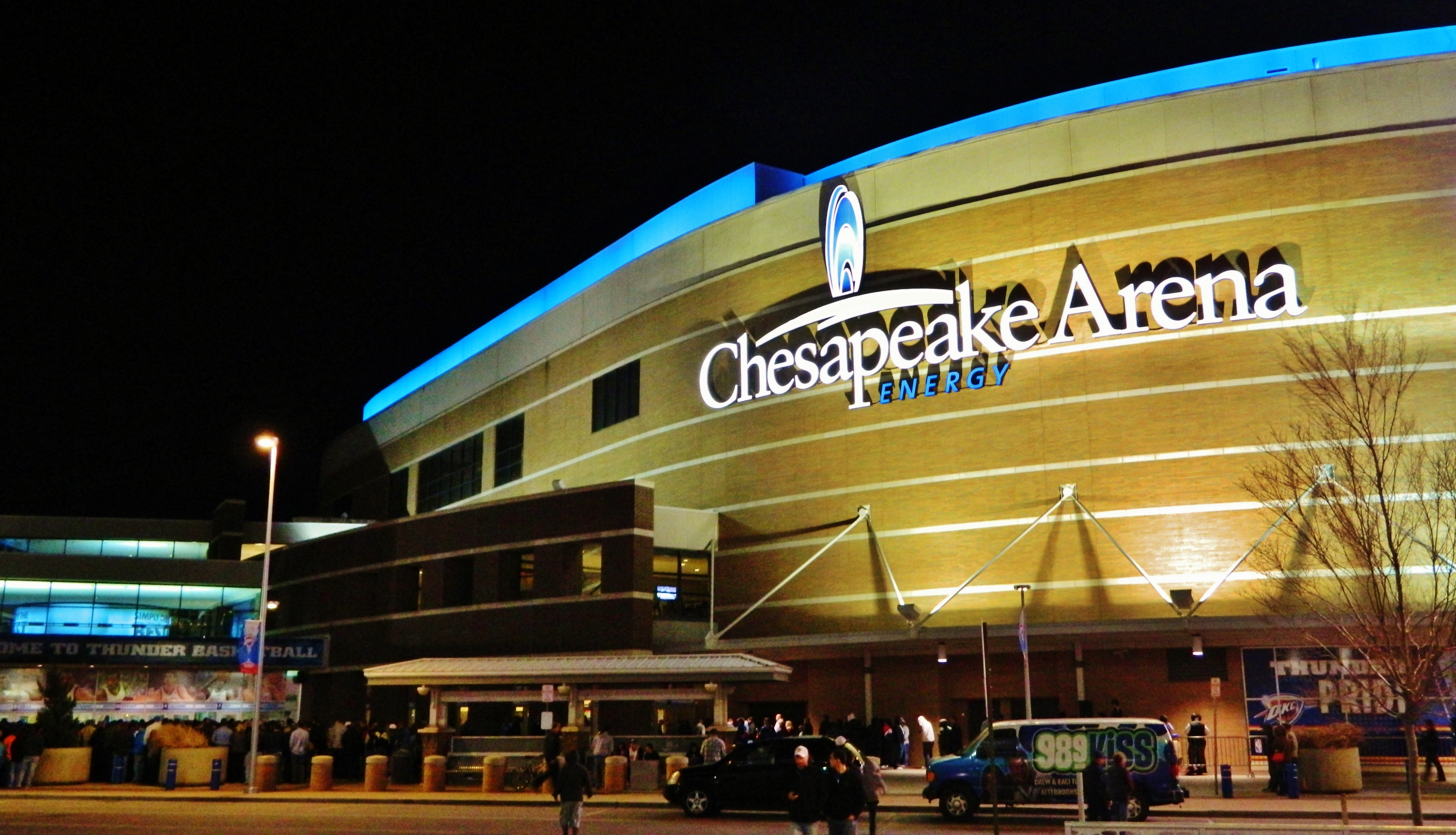 Chesapeake Energy Arena in downtown Oklahoma City.